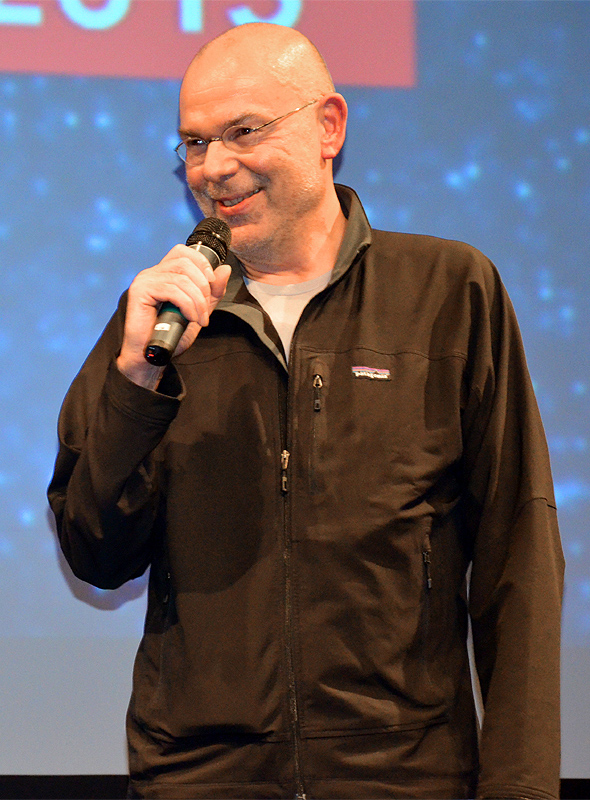 Harald Inhülsen (member of the team of the festival direction) at the opening of the 13th International up-and-coming Film Festival in Hannover